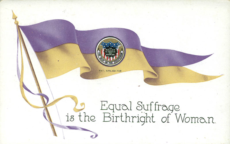 National American Woman Suffrage Association Endorsed and Approved Postcard Set